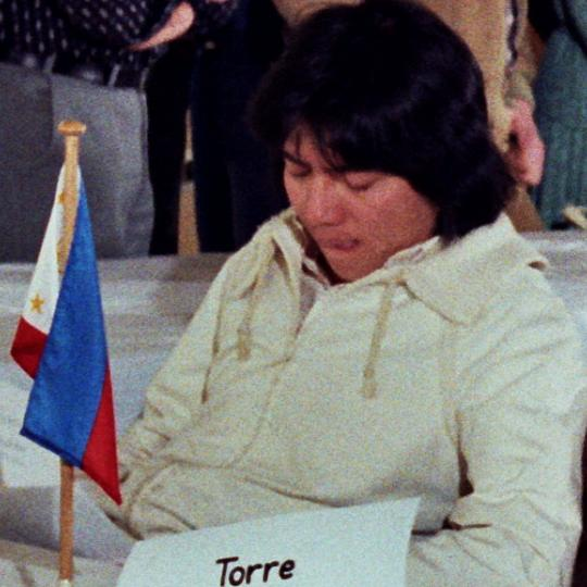 Eugenio Torre, International German Chess Championship 1981 at Bochum, Photographer Gerhard Hund.